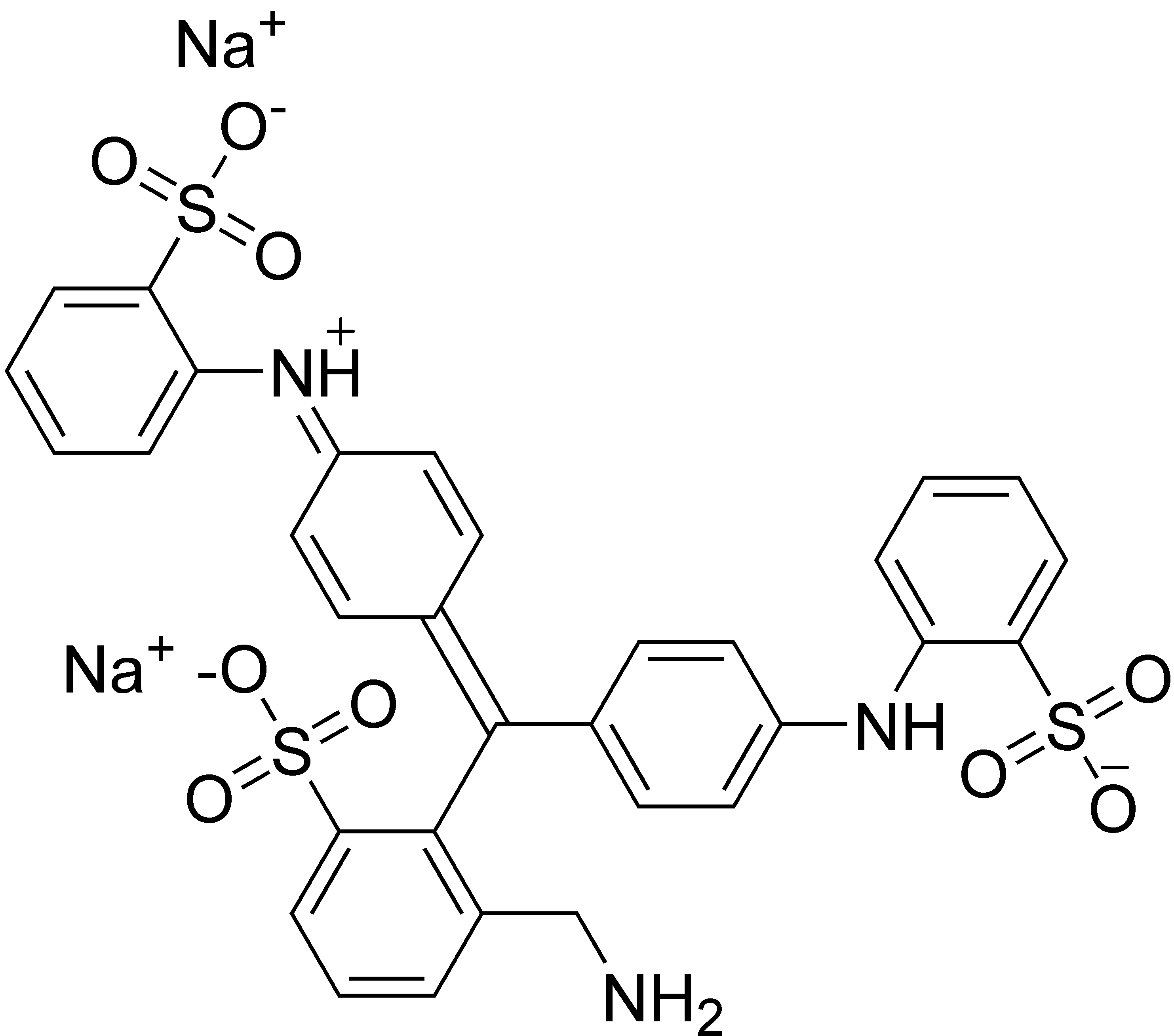 Chemical structure of Water blue